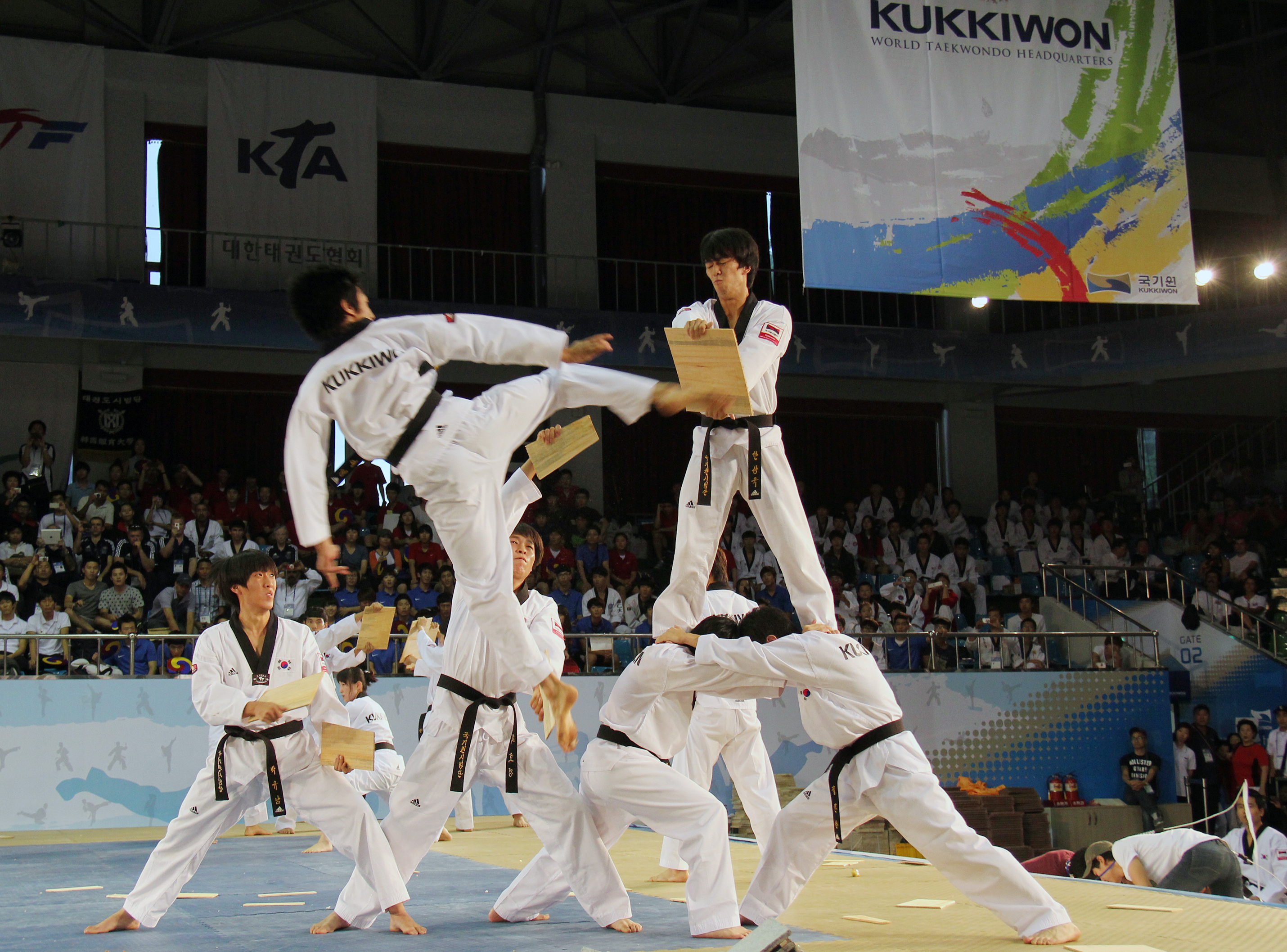 2012 World Taekwondo Hanmadang 20th World Taekwondo Hamadan Festival Opening Ceremony Kukkiwon Taekwondo Demonstration Team (Kukkiwon) 2012.08.28. Ministry of Culture, Sports and Tourism Korean Culture and Information Service Photo by KOCIS, Jeon Han 2012 세계태권도한마당 제20회 세계태권도 한마당 개막식 국기원 태권도 시범단 문화체육관광부 해외문화홍보원 전한